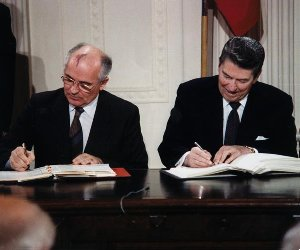 Source: Own work, image adapted from public domain image :Image:Reagan and Gorbachev signing.jpg Author: user:Daduzi